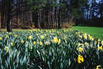 Picture taken by myself (Scott Skinner), public domain Picture taken by myself (Scott Skinner), public domain